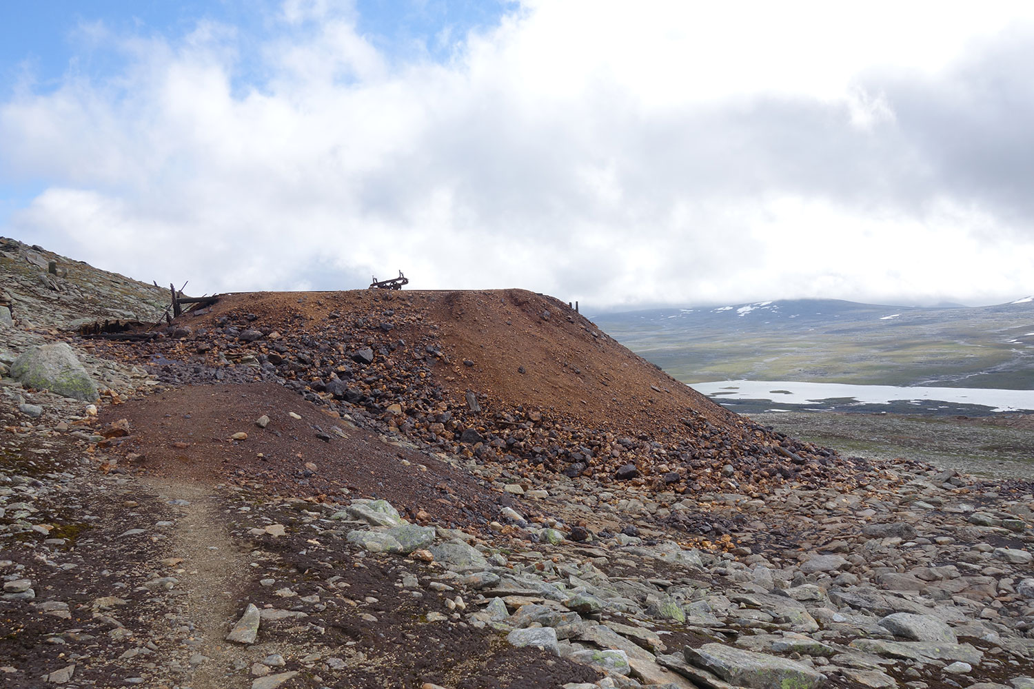 The south-western mining pit on Mount Nasafjäll, with remains of the mining that took place in the late 19th century.